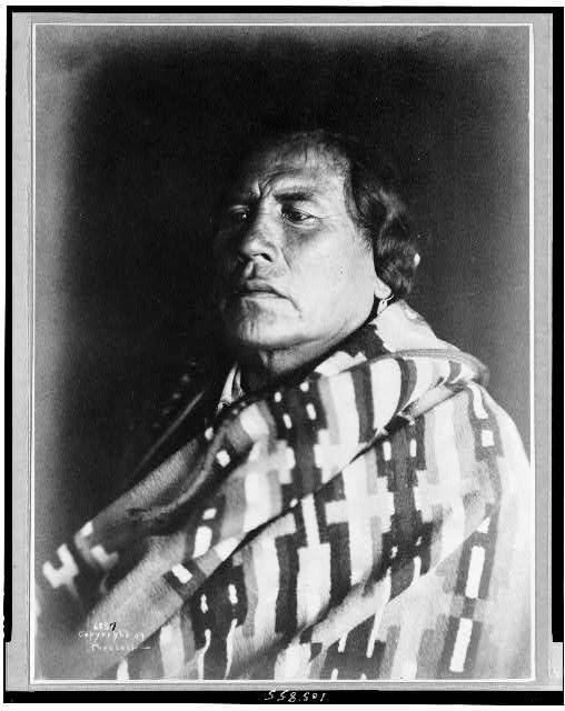 Curly (1859-1923), survivor of Custer massacre–Crow Indian scout for Custer, head-and-shoulders portrait, facing left.